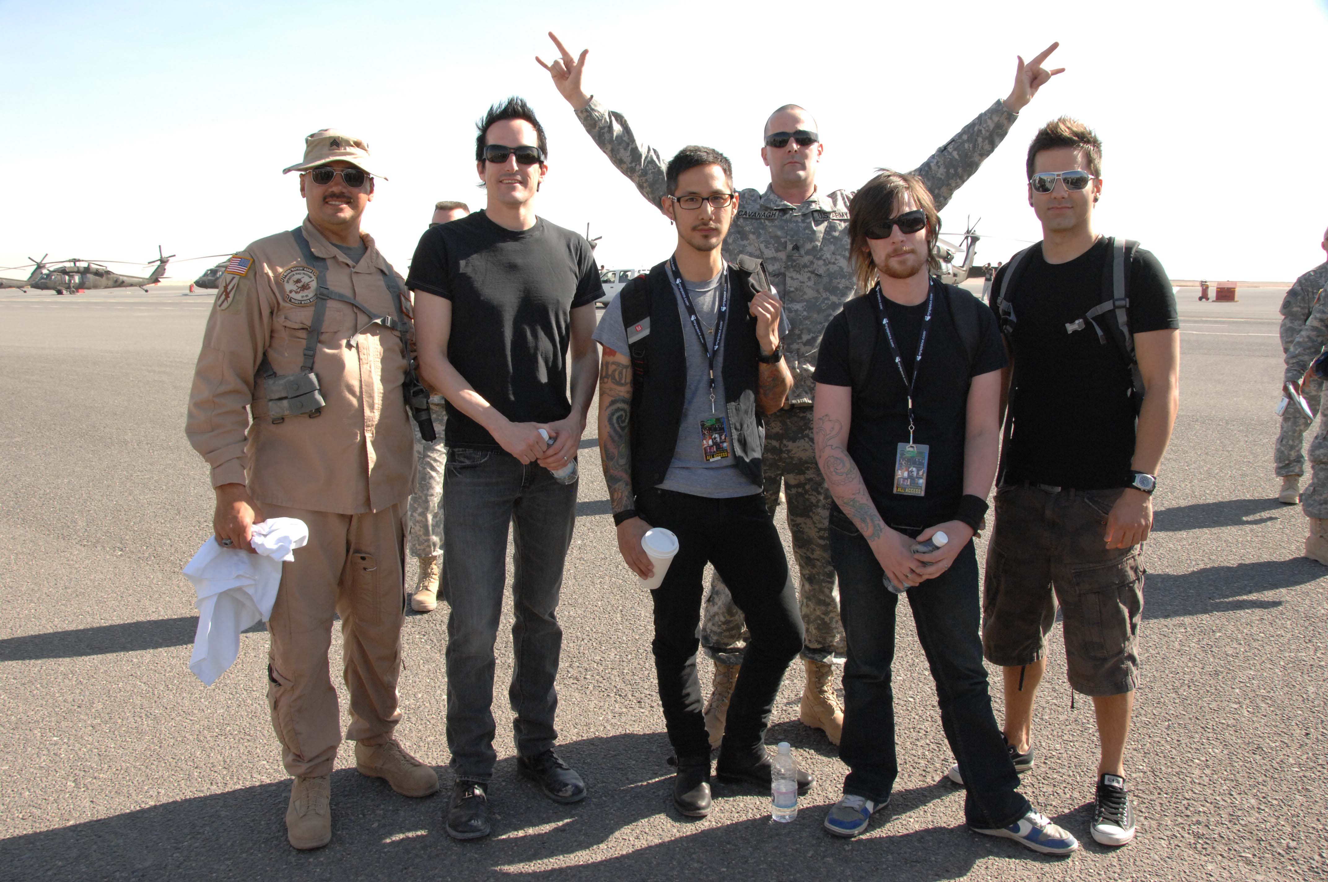 Former bassist of the band, Filter, Army Sgt. Frank Cavanaugh rocks out with arms held high as he is reunited with the band before his deployment to Iraq. Filter performed before a crowd of about 5,000 servicemembers at the Operation: MySpace concert on Mar. 10, 2008 at Camp Buehring, Kuwait.